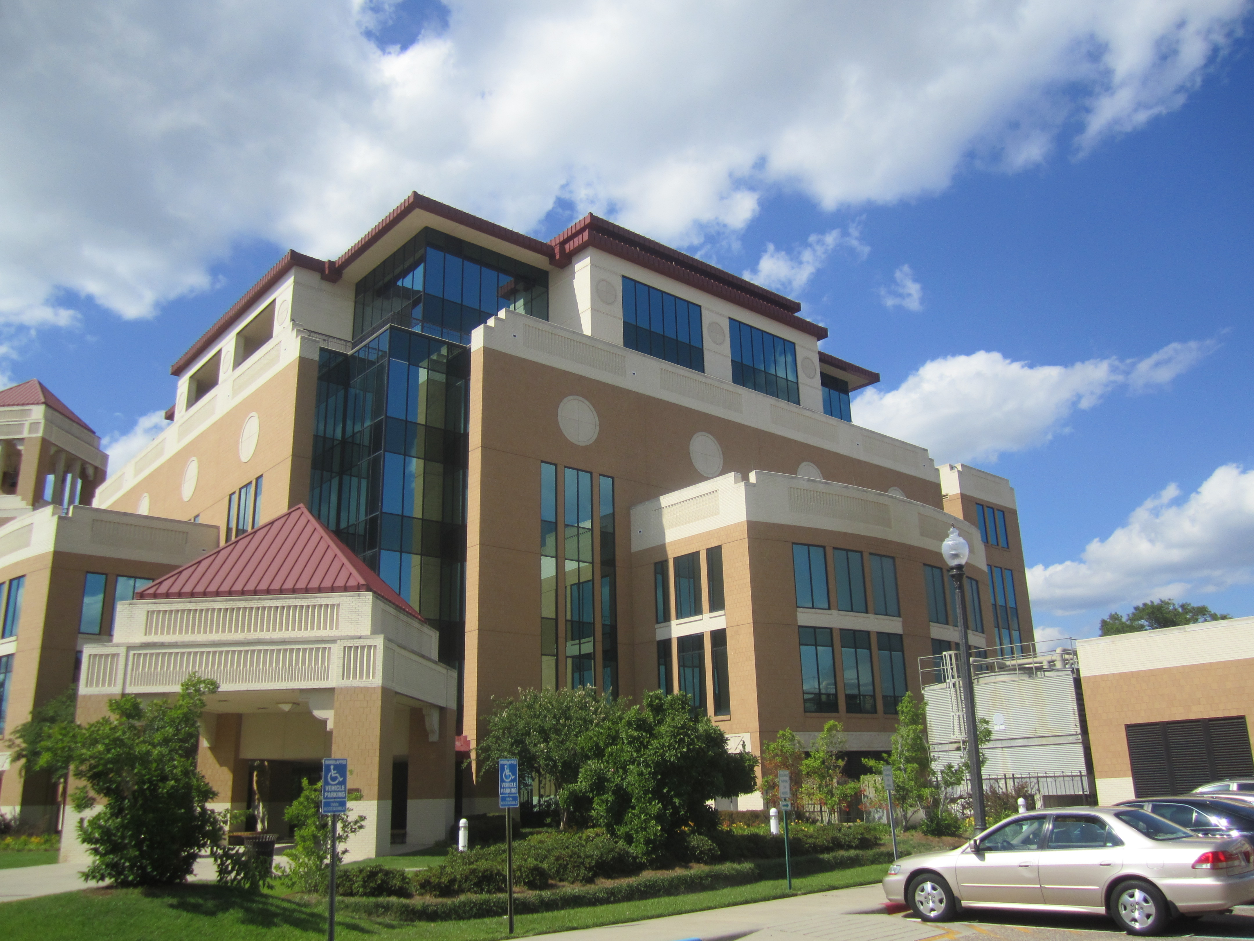 I took photo with Canon camera at ULM in Monroe. It is the library and conference center.